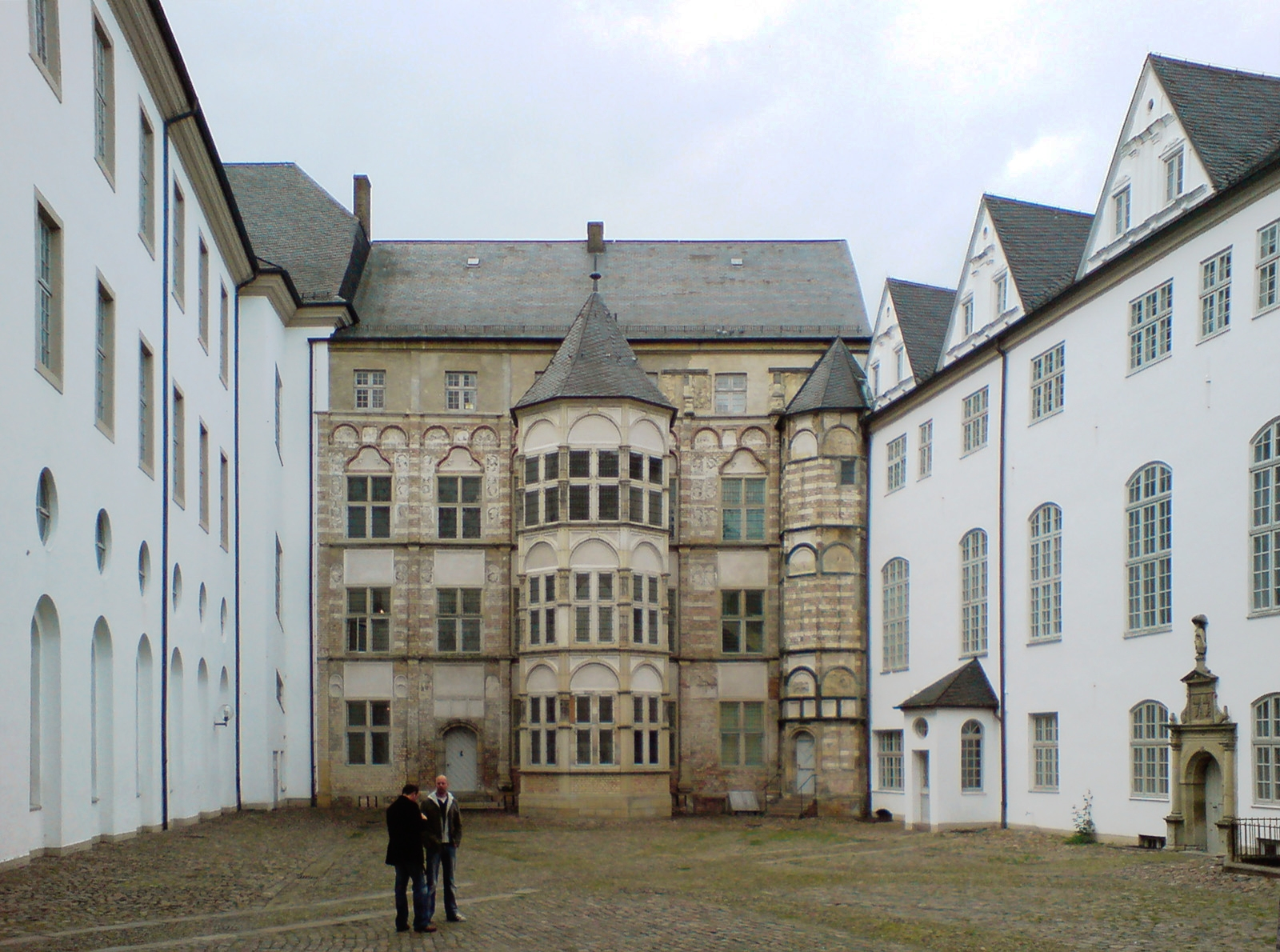 Description=Gottorf, Hof *Source=myself *Date=02.2007 *Author=PodracerHH 19:37, 19 March 2007 (UTC)